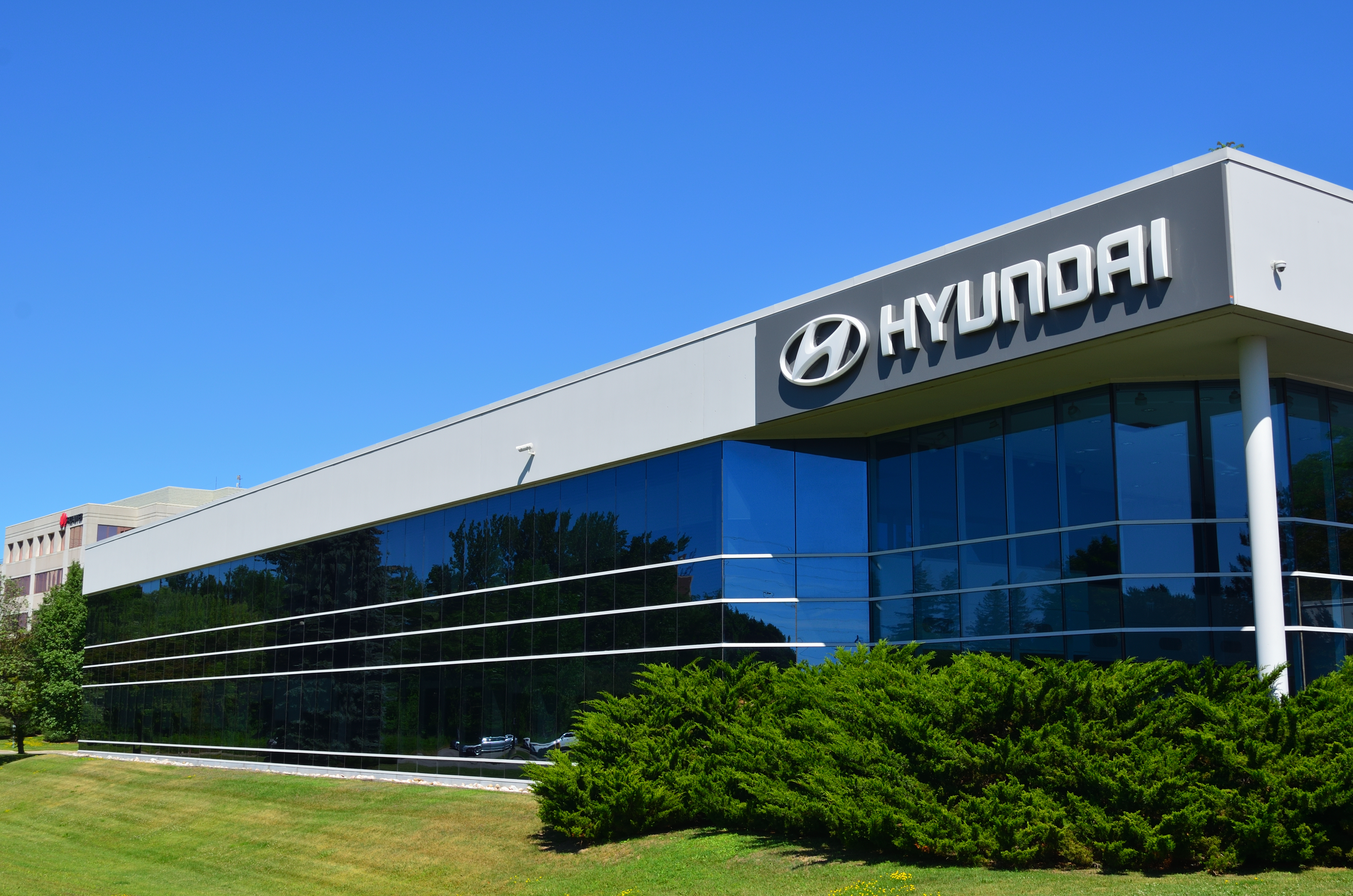 Hyundai Auto Canada Corp